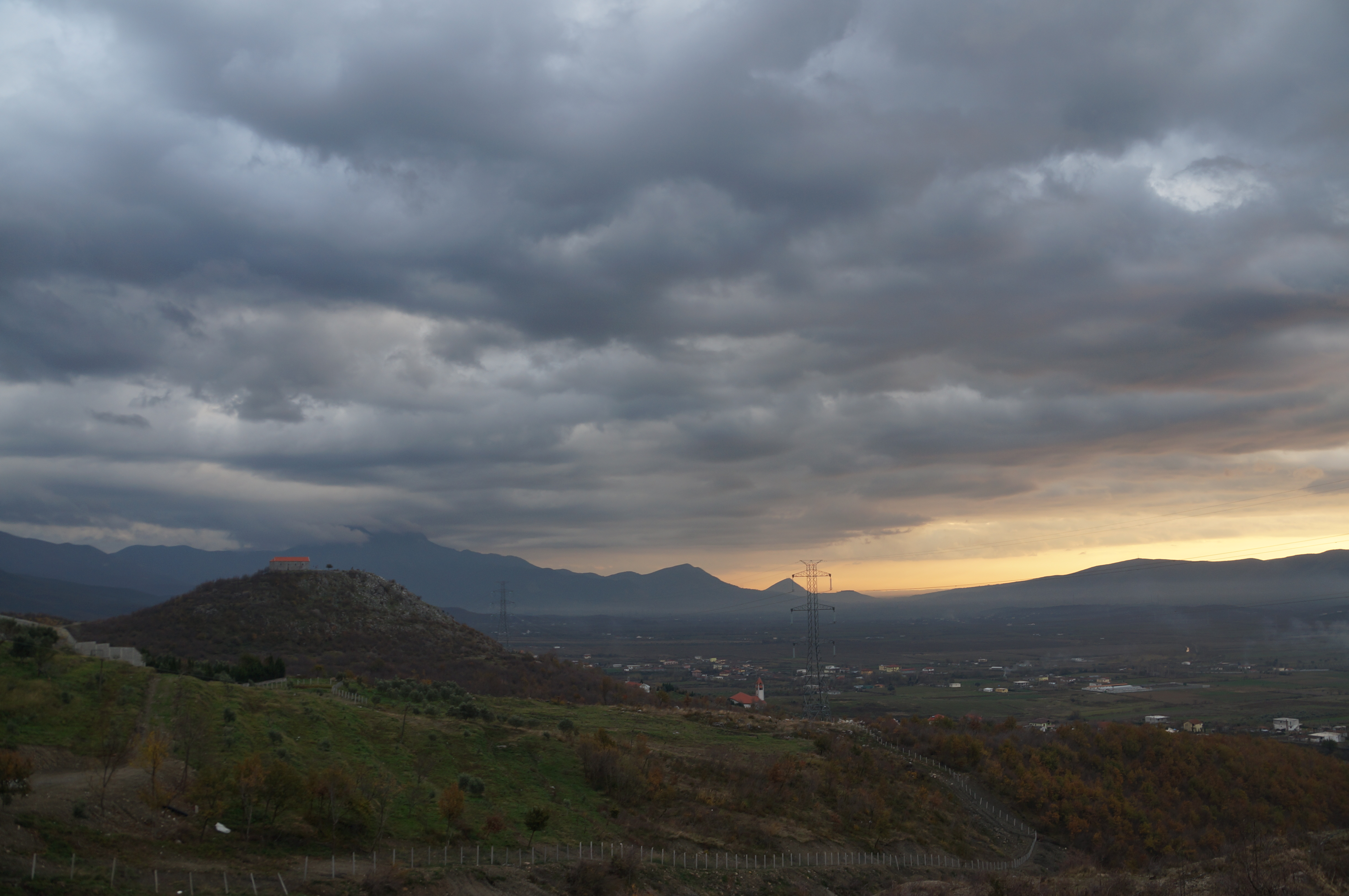 In Nënshat, a village of Zadrima in Northern Albania